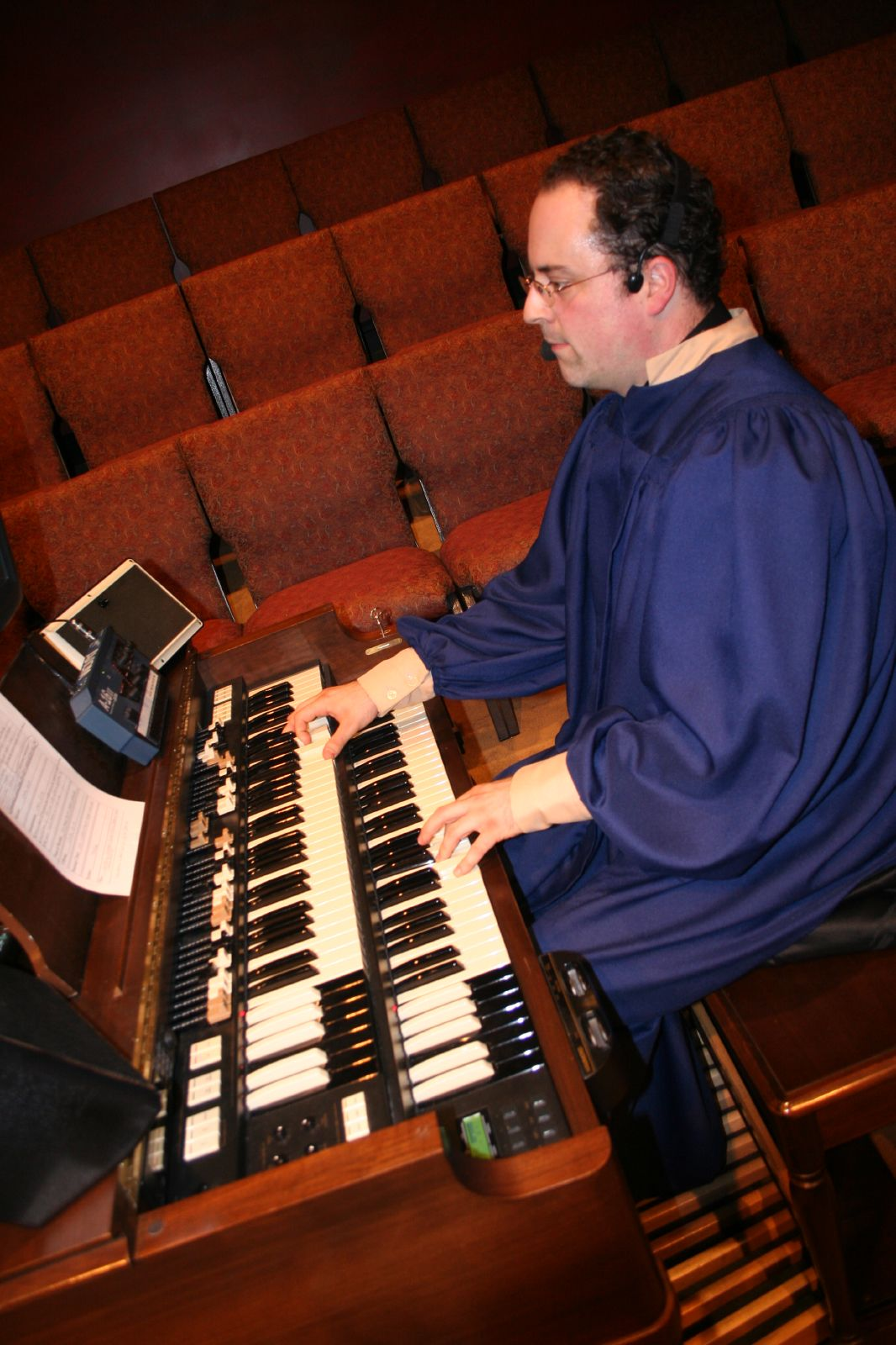 Hammond XB-3